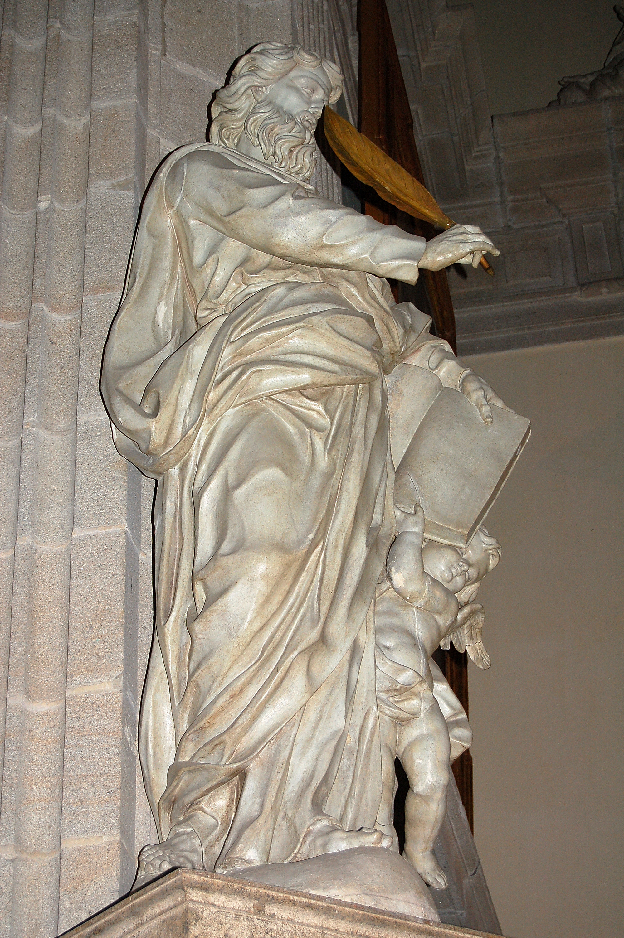 San Mateo de Xosé Ferreiro na sancristía de San Martiño Pinario de Santiago de Compostela